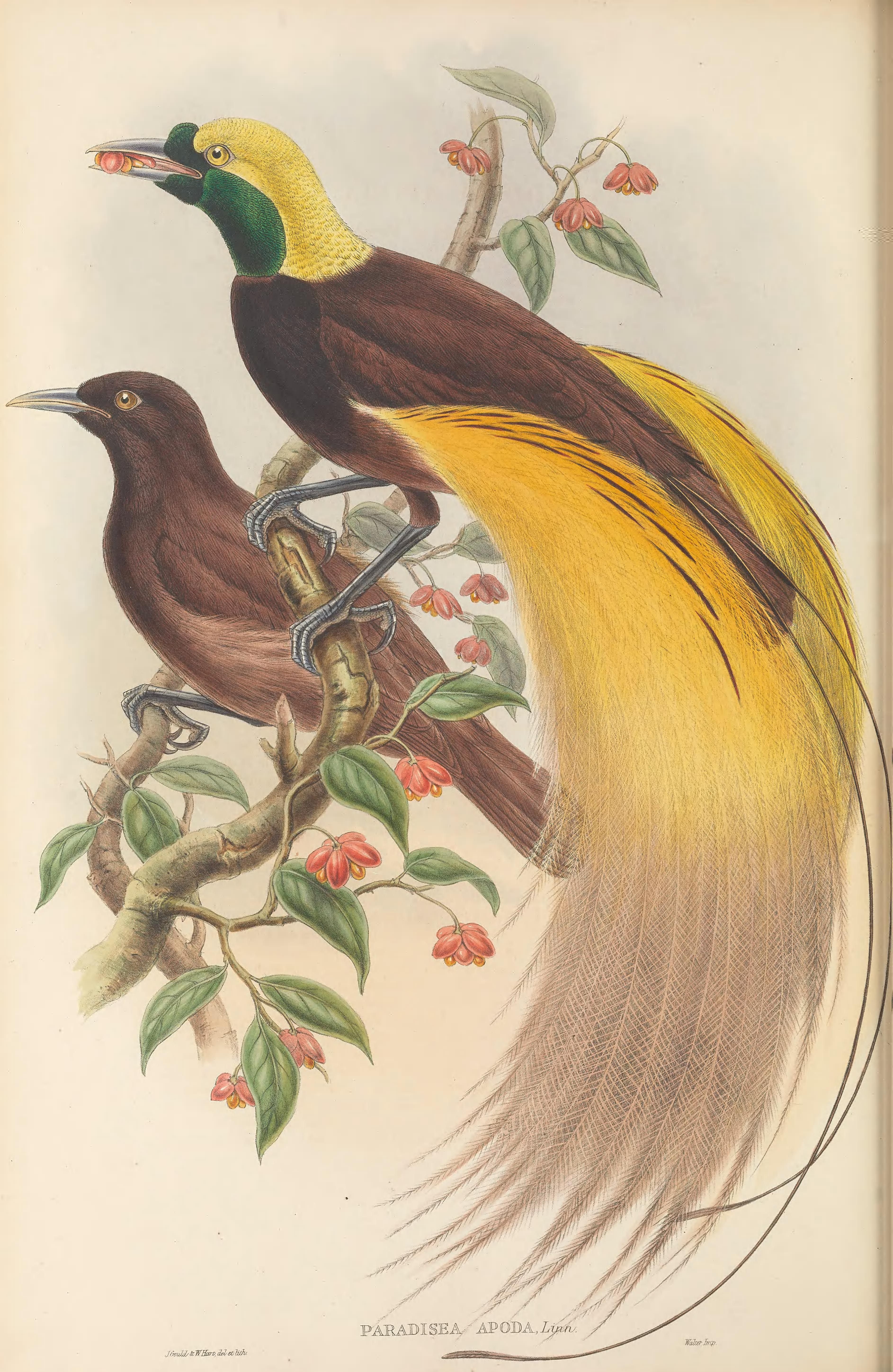 Paradisaea apoda - The birds of New Guinea and the adjacent Papuan islands : including many new species recently discovered in Australia. v.1 (Plate XXX).